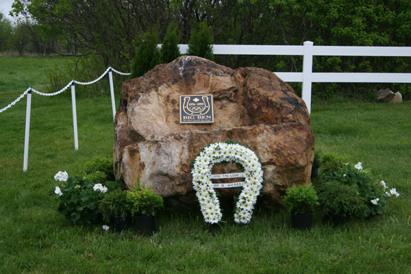 Gravesite of Big Ben, famous show jumping horse. Located on a knoll overlooking Millar Brooke Farm in Perth, Ontario, Canada.